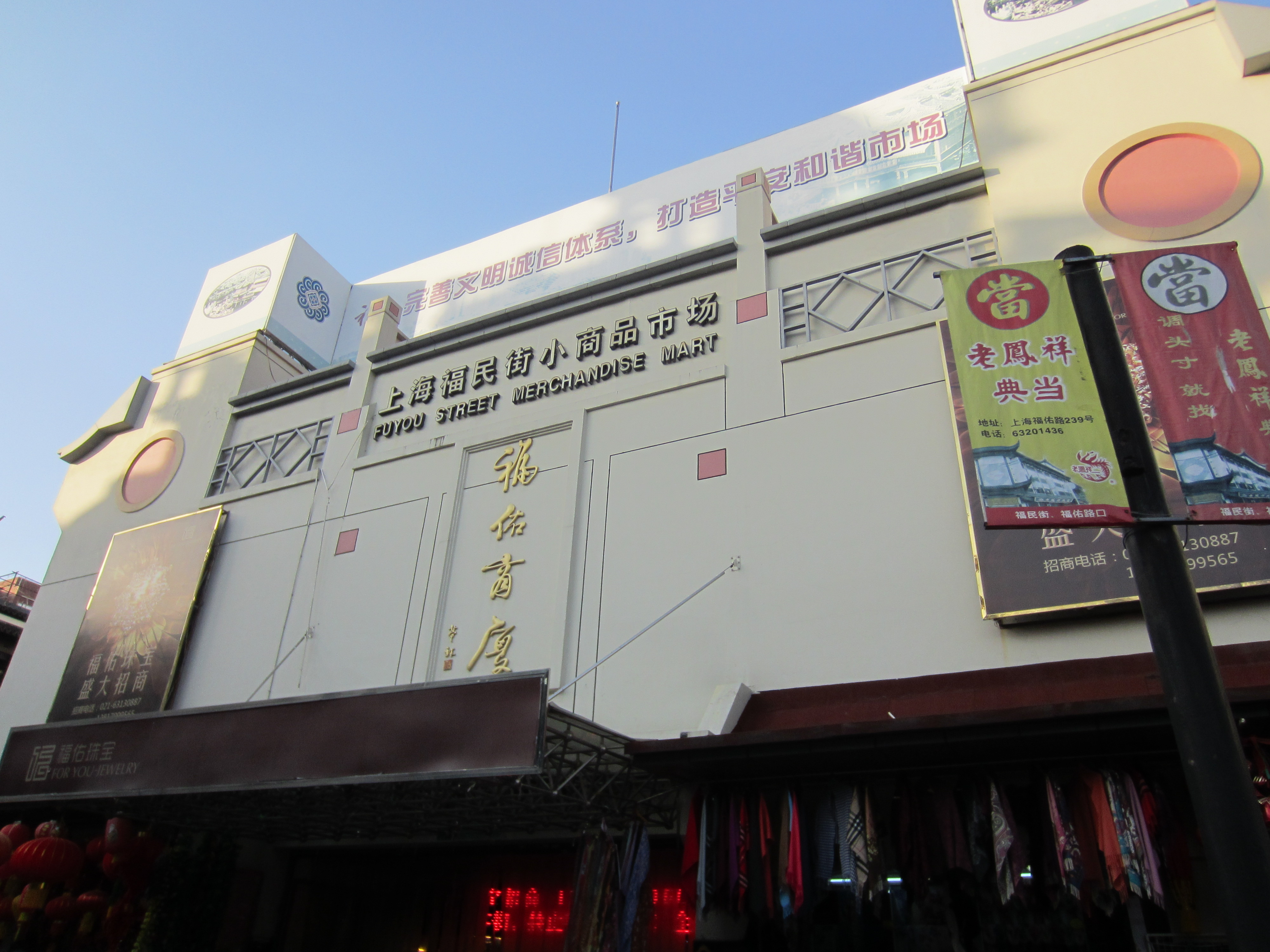 Fuyou Street Merchandise Mart, Shanghai, China, December 2015